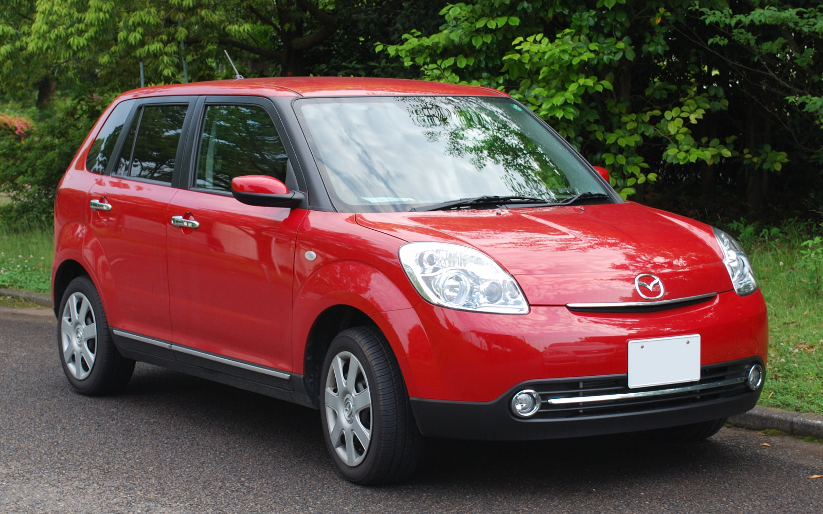 Mazda Verisa (2006/8 - )